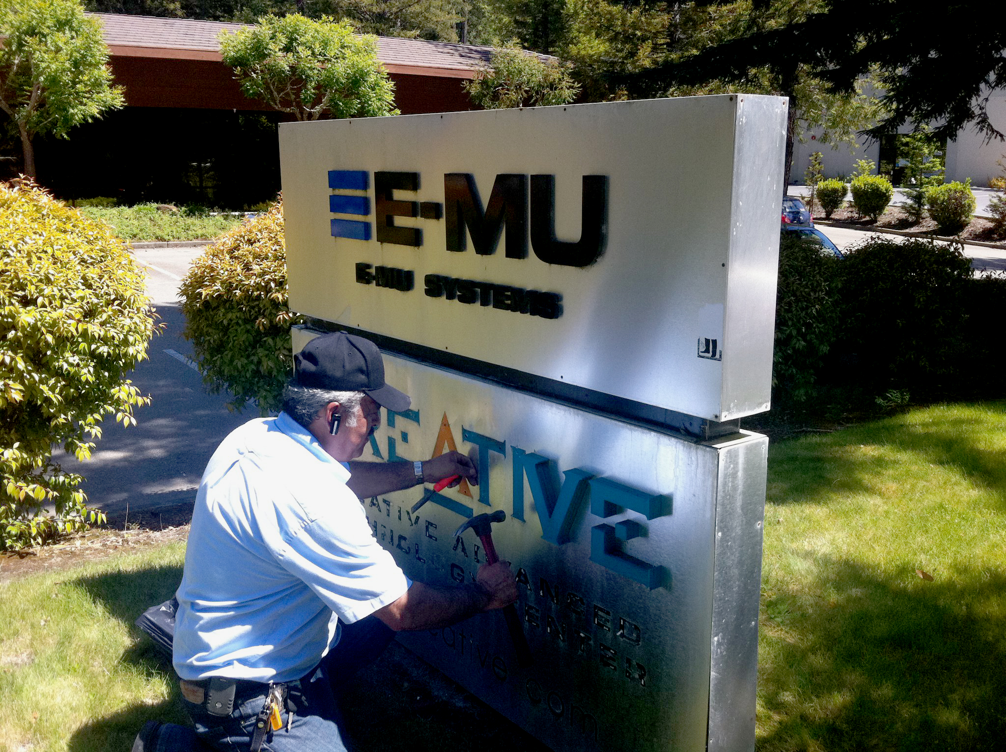 I was driving through Scotts Valley the other day, and spotted this guy out front with a hammer and chisel, taking down the old E-Mu/Creative Labs sign